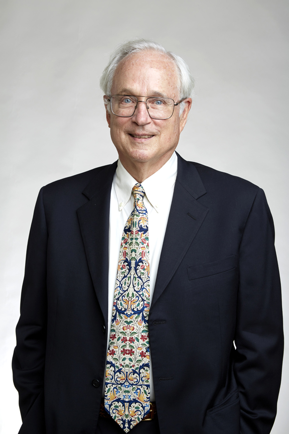 Butler Lampson is an American computer scientist best known for his contributions to the development and implementation of distributed personal computing Attribution: The Royal Society